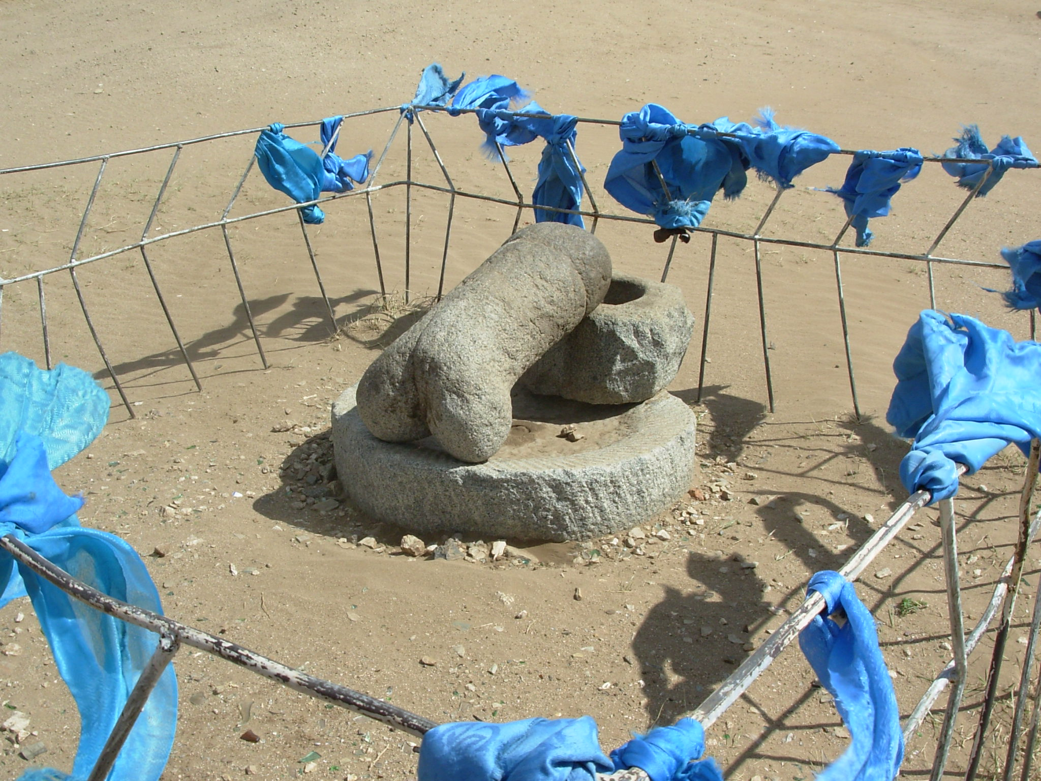 Kharkhorin Rock, phallus monuments to remind monks of Erdene Zuu, Mongolia, to remain celibate